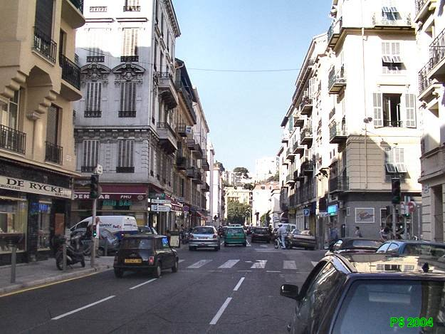 13 Rue Pastorelli, vers le boulevard Carabacel (direction E)